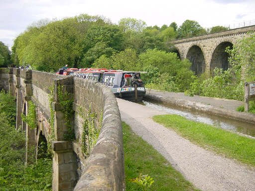 Marple Aqueduct, Peak Forest Canal Marple Aqueduct, on the Peak Forest Canal, crosses the River Goyt just north of the flight of 16 locks at Marple.